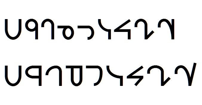 While Greek, Latin, and Cyrillic have Serif and Sans-Serif forms, Canadian Aboriginal Syllabics generally do not. Instead, like the Proportional and Monospace fonts, Canadian Aboriginal Syllabics have a Round form, with smooth bowls, differing letter heights, and occupying a rectangular space, akin to a Proportional font, opposed to the Square forms, with cornered bowls, same letter heights, and occupying a square space, akin to a Monospace font.